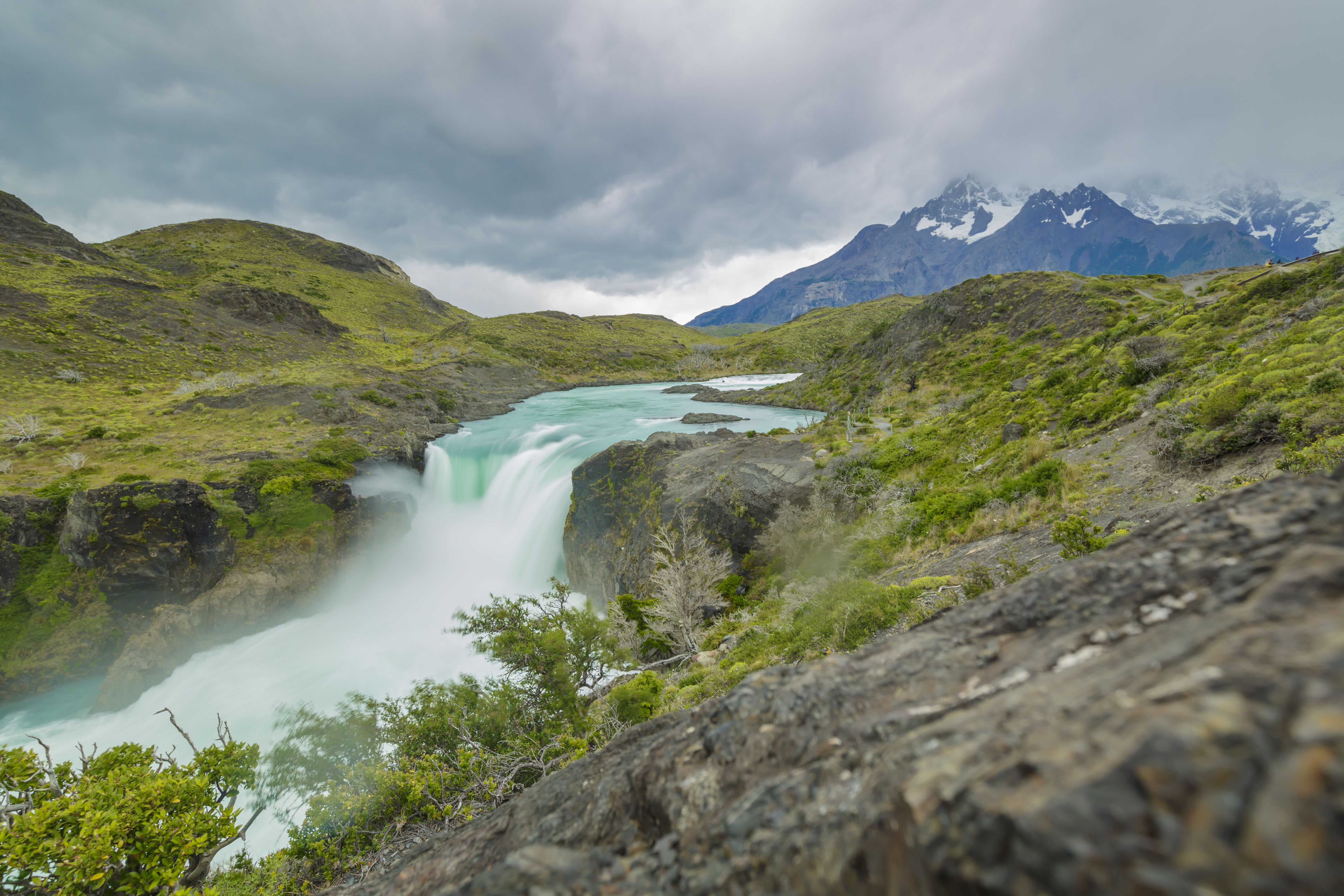 PanAmericana 2017 - the image was taken on an overlanding travel from Ushuaia to Anchorage - taken by Thomas Fuhrmann, SnowmanStudios - see more pictures on / mehr Aufnahmen auf